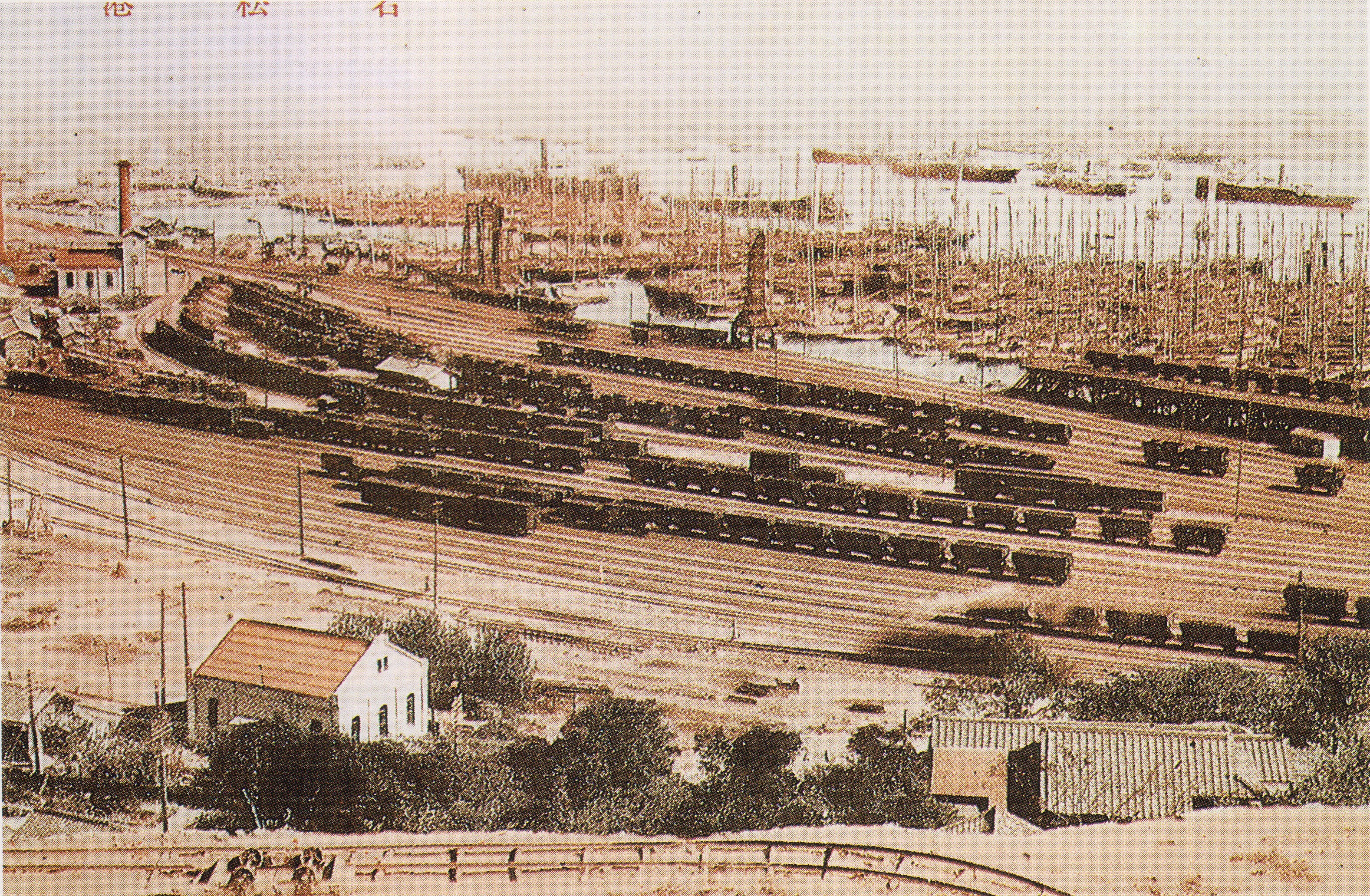 Wakamatsu station and Wakamatsu port, Wakamatsu city (now Kitakyushu city) Fukuoka prefecture Japan. The station was filled with coal hopper wagons. About 2,000 wagons of coal were shipped daily.